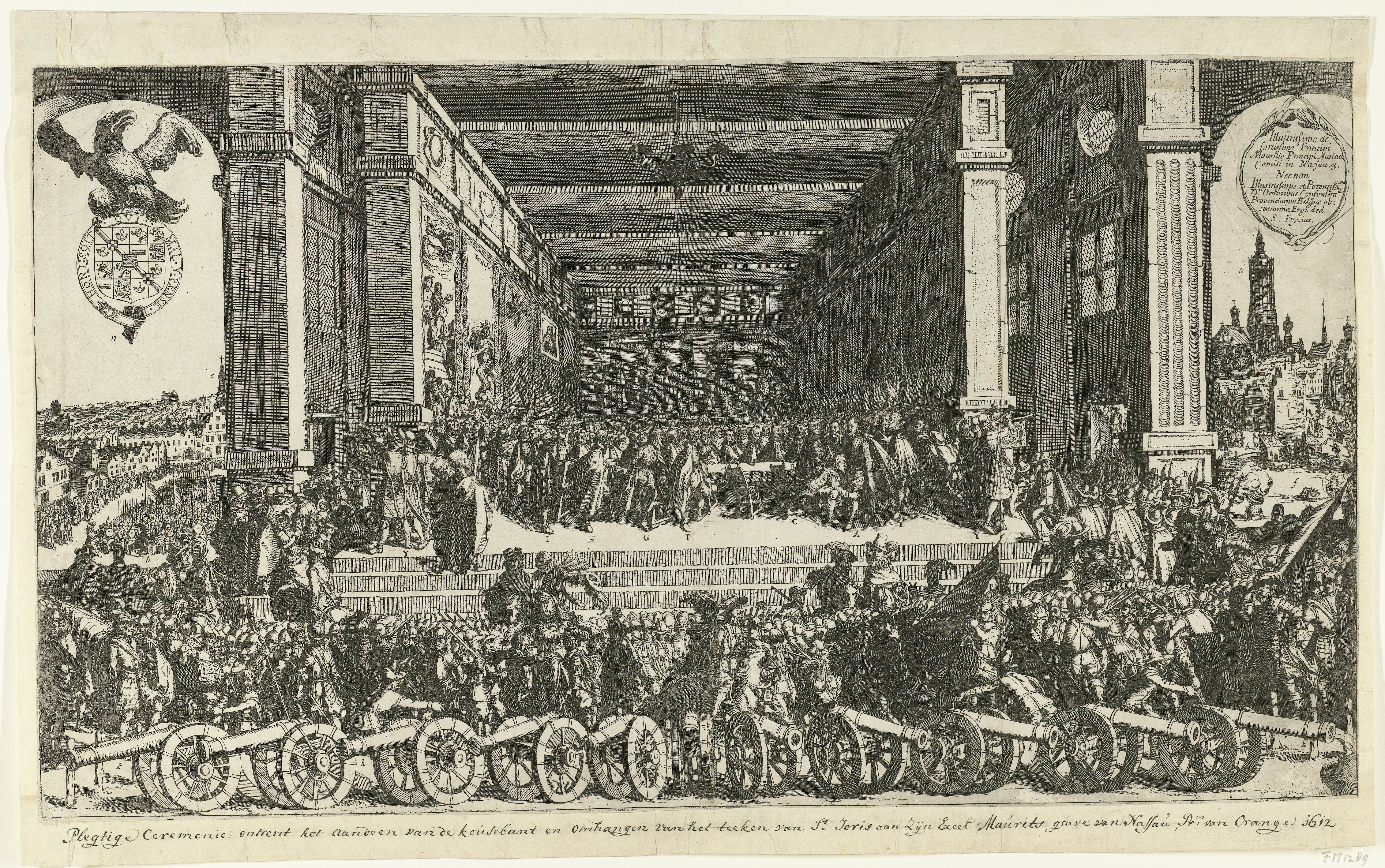 Maurice of Nassau receives the Order of the Garter in 1613, The Hague.